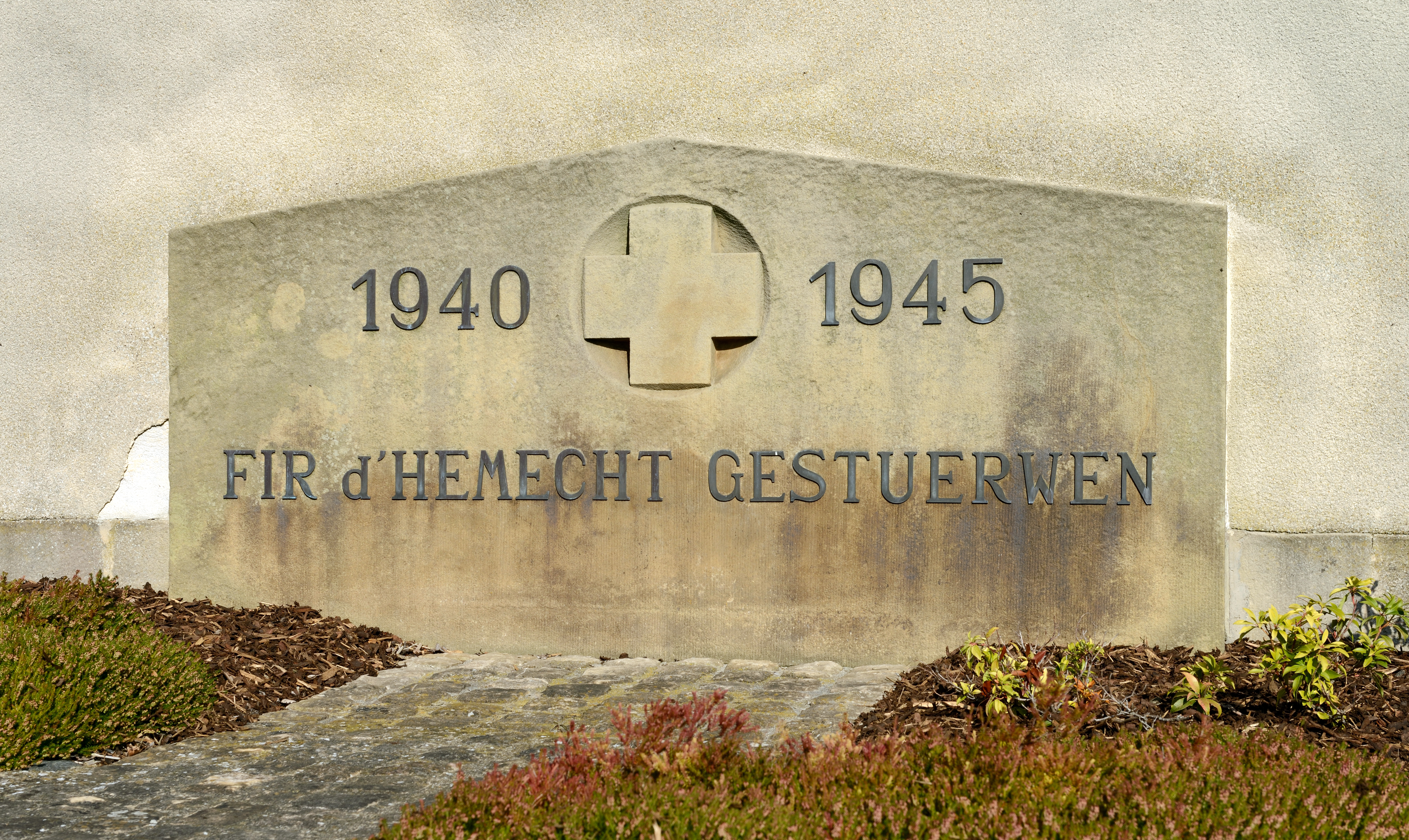 Second World War monument in Elvange, commune of Beckerich , Luxembourg. The monument leans against the facade of the church.